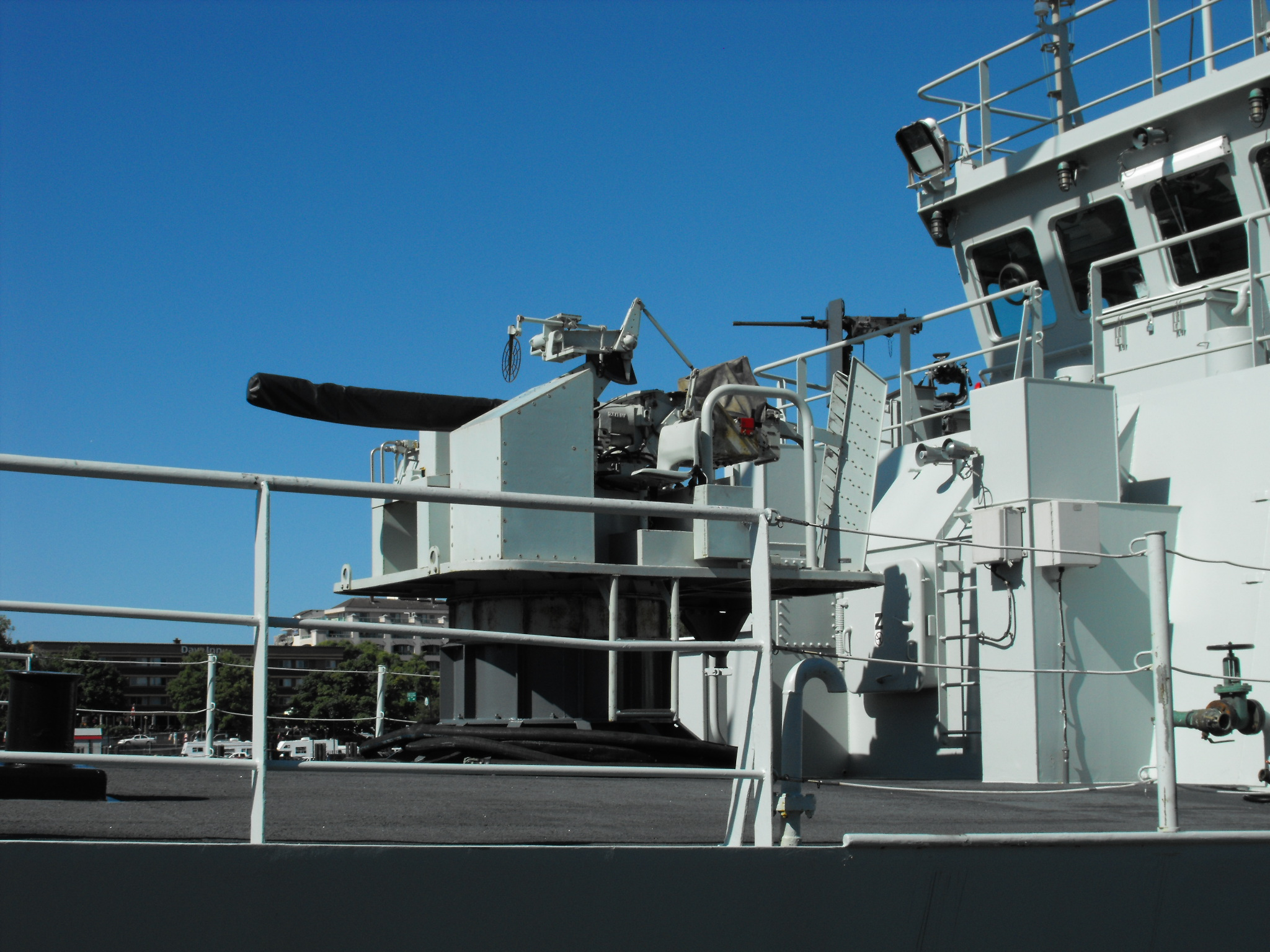 The Bofors 40 mm Model 60 Mk 5C rapid fire gun fitted as the main weapon of the coastal defence vessel HMCS Nanaimo